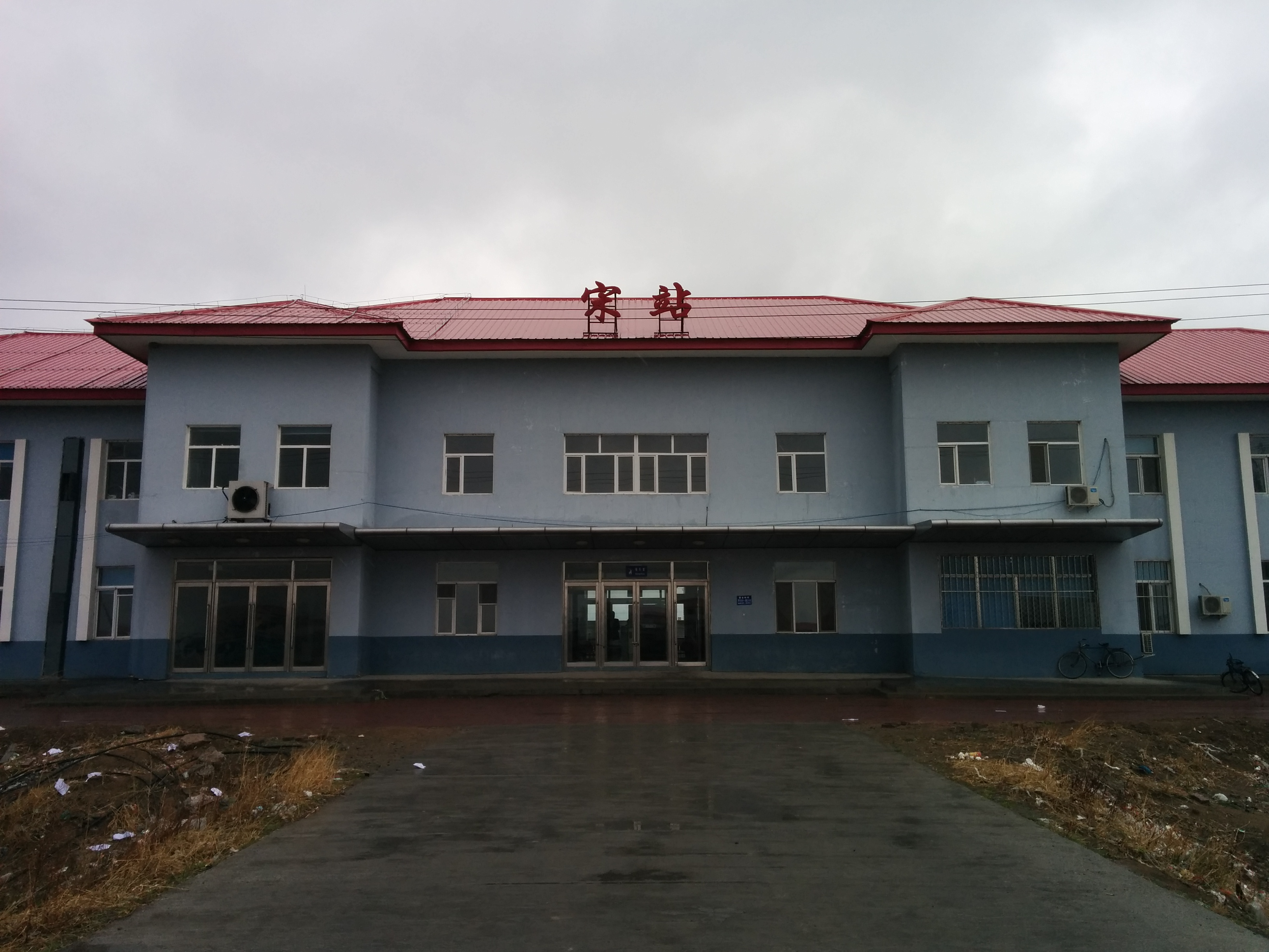 Song Railway Station中文（中国大陆）: 宋站